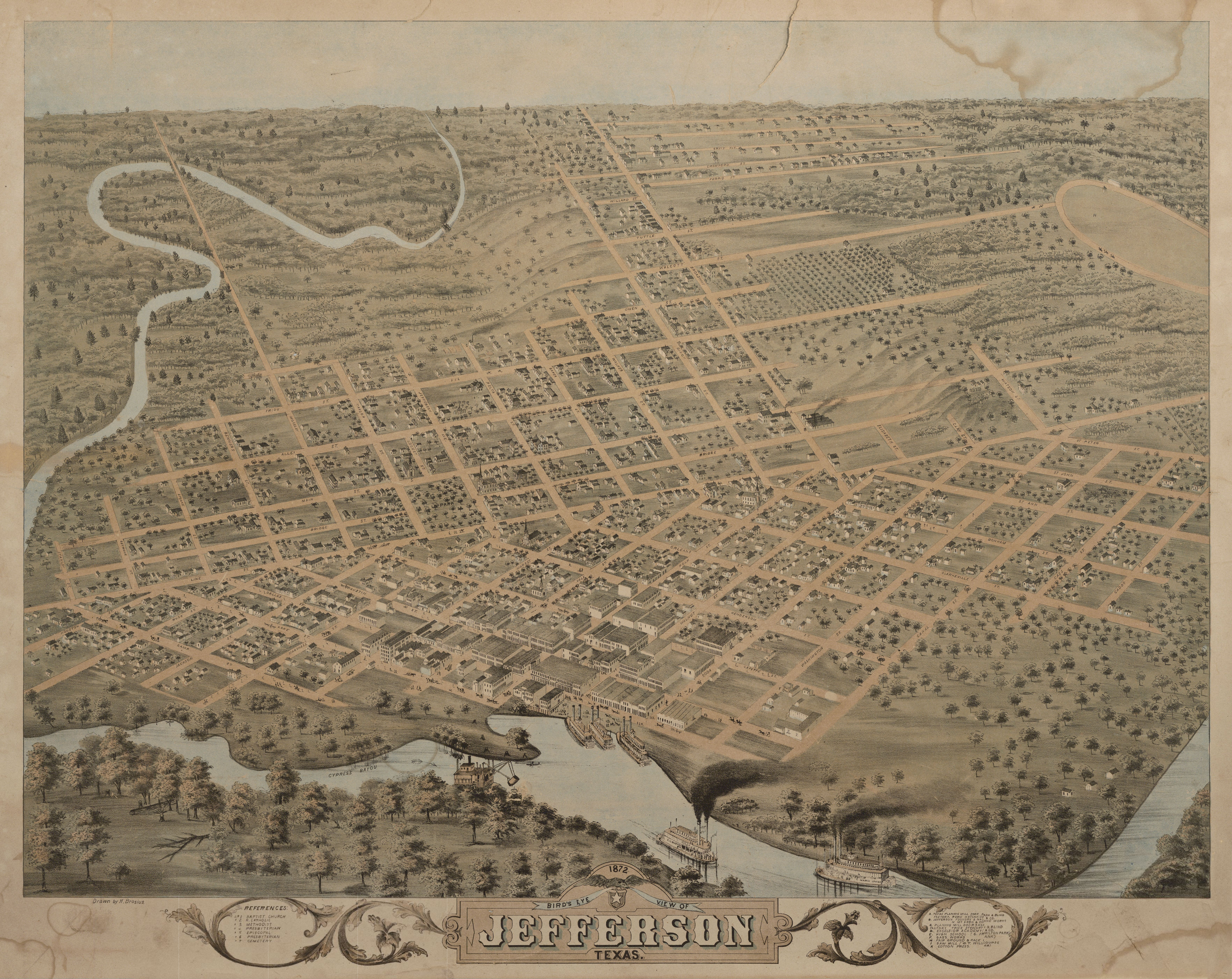 Bird’s Eye View of Jefferson, Texas, 1872. Lithograph (hand-colored), 20 x 27.5 in. Lithographer unknown. Marion County Historical Society, Jefferson.